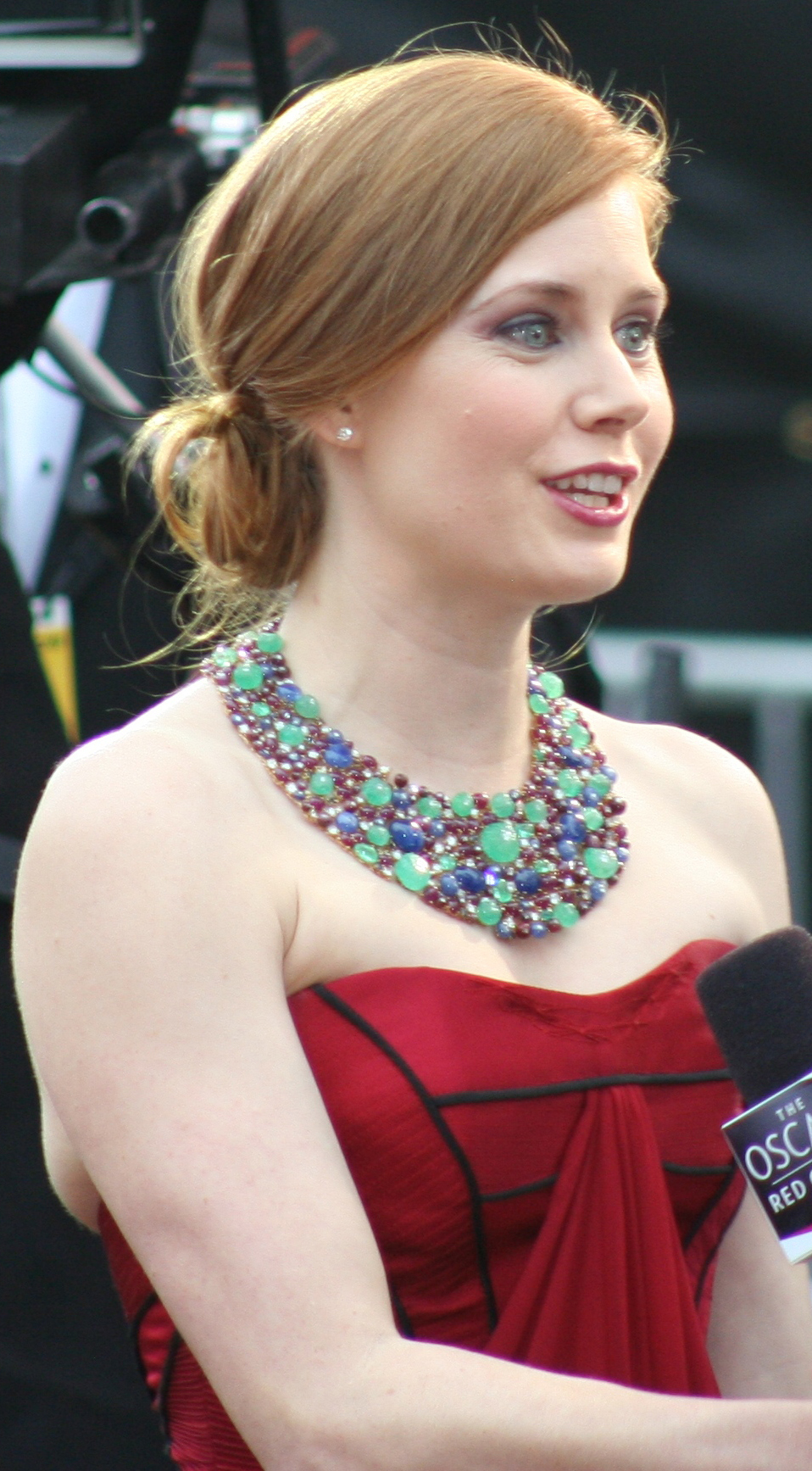 Amy Adams at the 81st Academy Awards